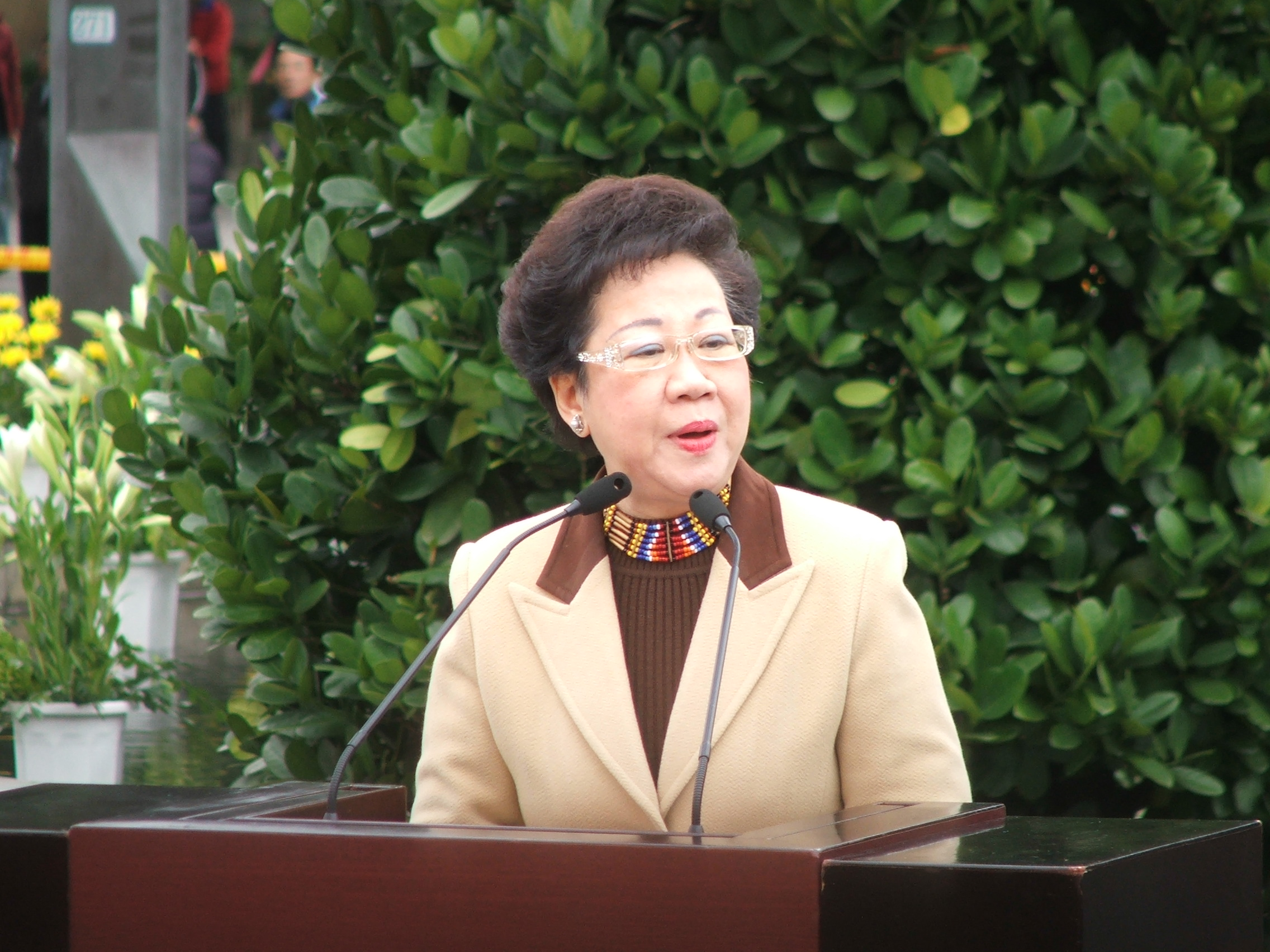 1947 marked the beginning of a brutal crackdown by the ROC troops on the people of Taiwan. It is believed more than 10,000 people were killed.